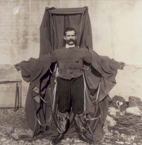 Image of Franz Reichelt Died February 4th 1912